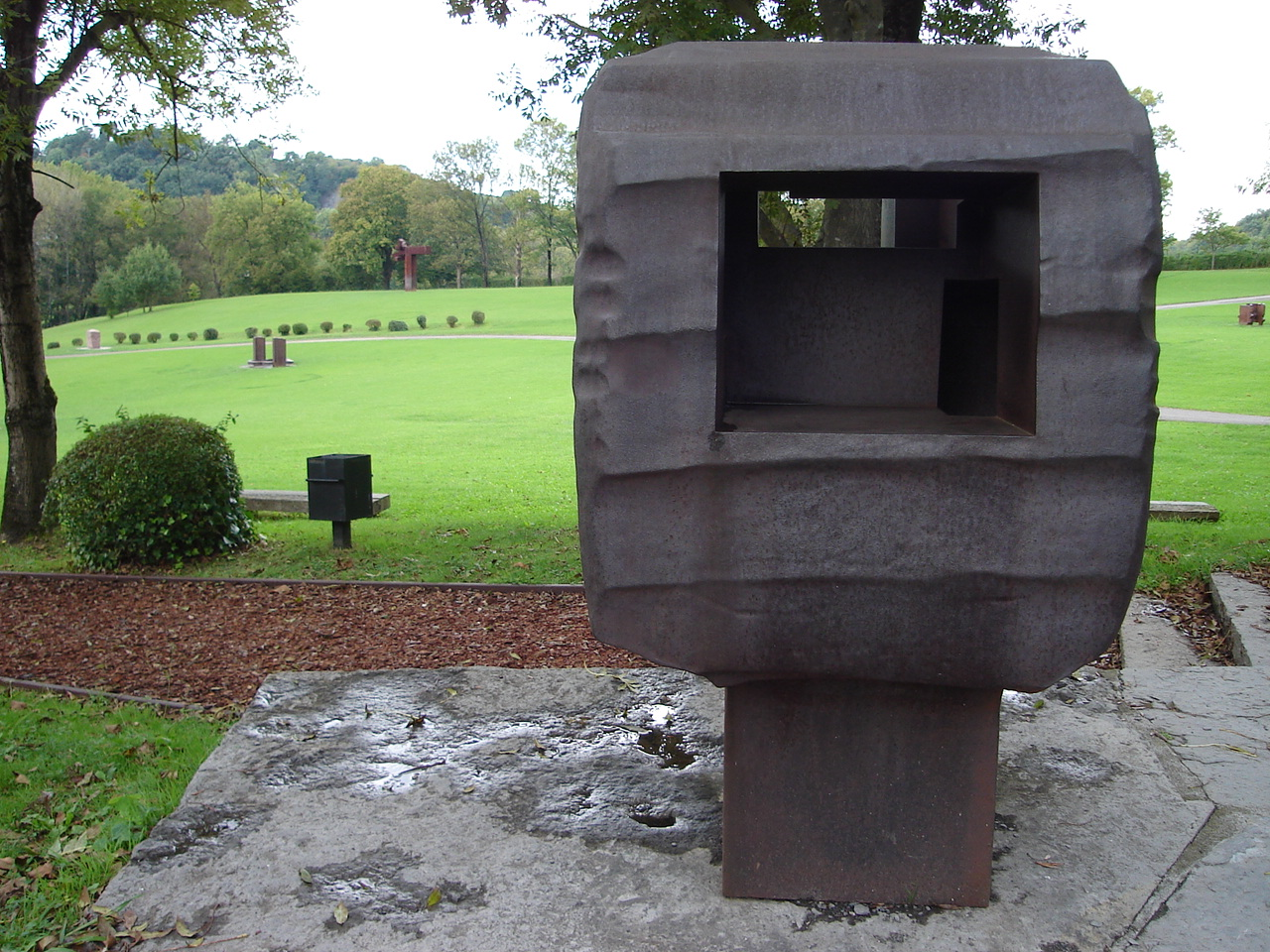 A sculpture by Spanish Basque author Eduardo Chillida Juantegui in his open air museum in Hernani, near San Sebastián